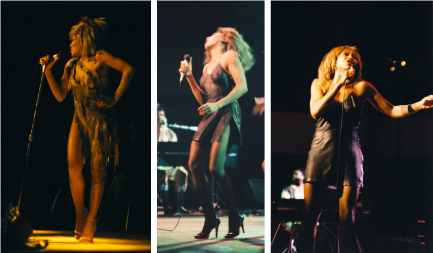 Tina Turner, St David's Hall, Cardiff, 1984. Pre-Private Dancer tour.